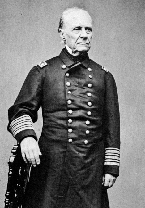 William Shubrick